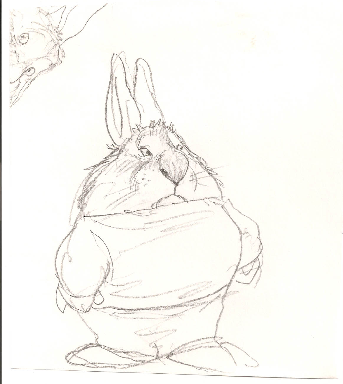 Wallace Tripp sketch of a fat rabbit; for more go to